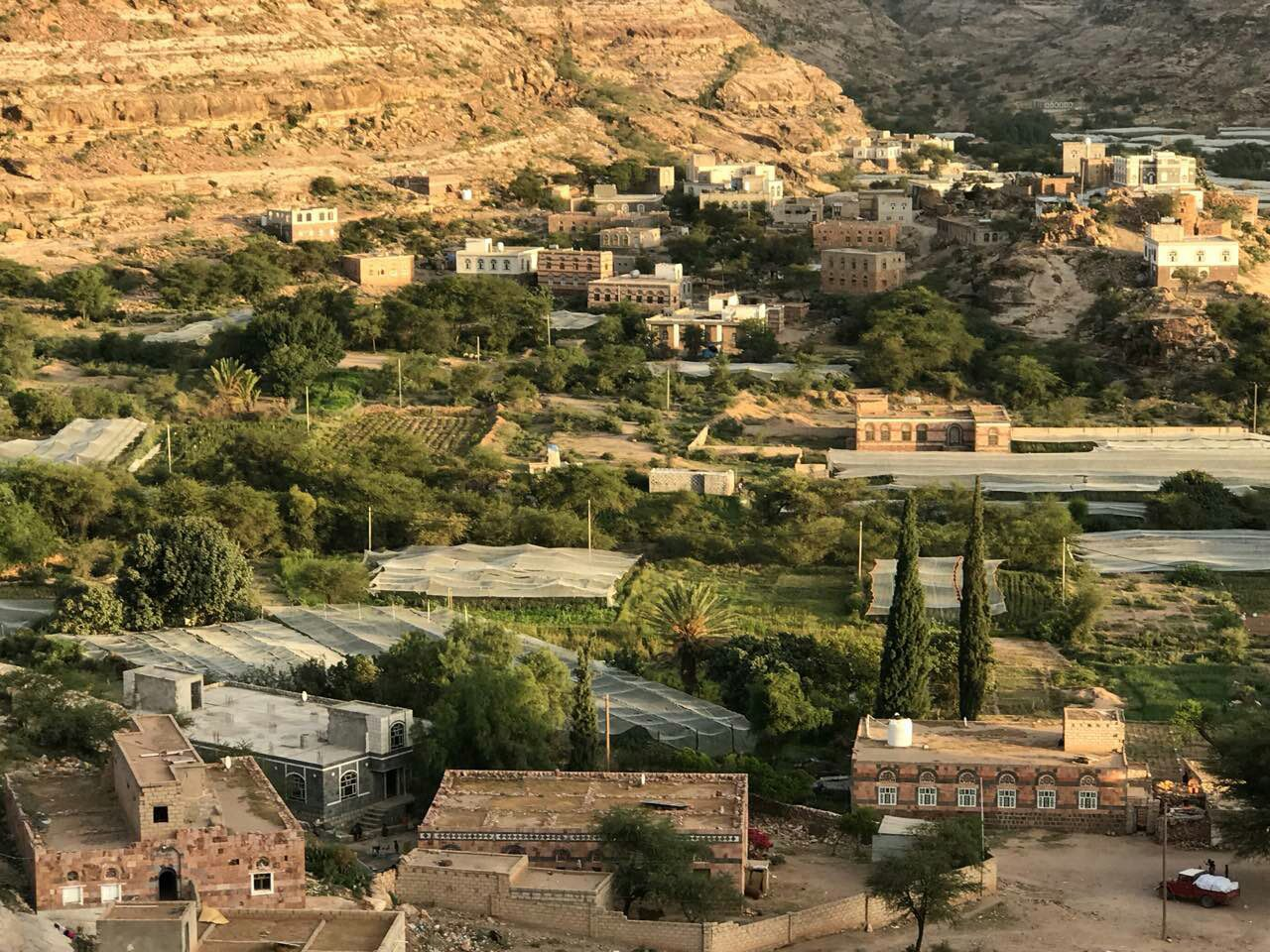 A photo from Juban District, Dhale, Yemen.